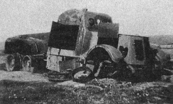 Советский средний по массе химический бронеавтомобиль КС-18, уничтоженный в одном из боёв. Лето 1941 года.